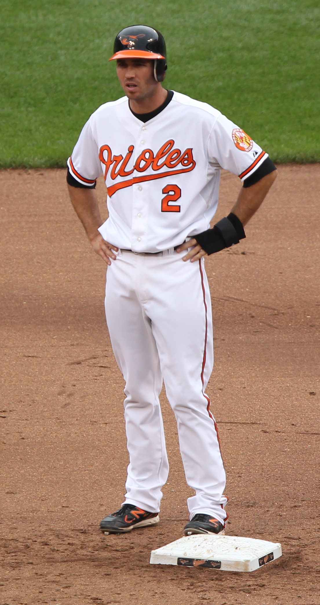 J. J. Hardy